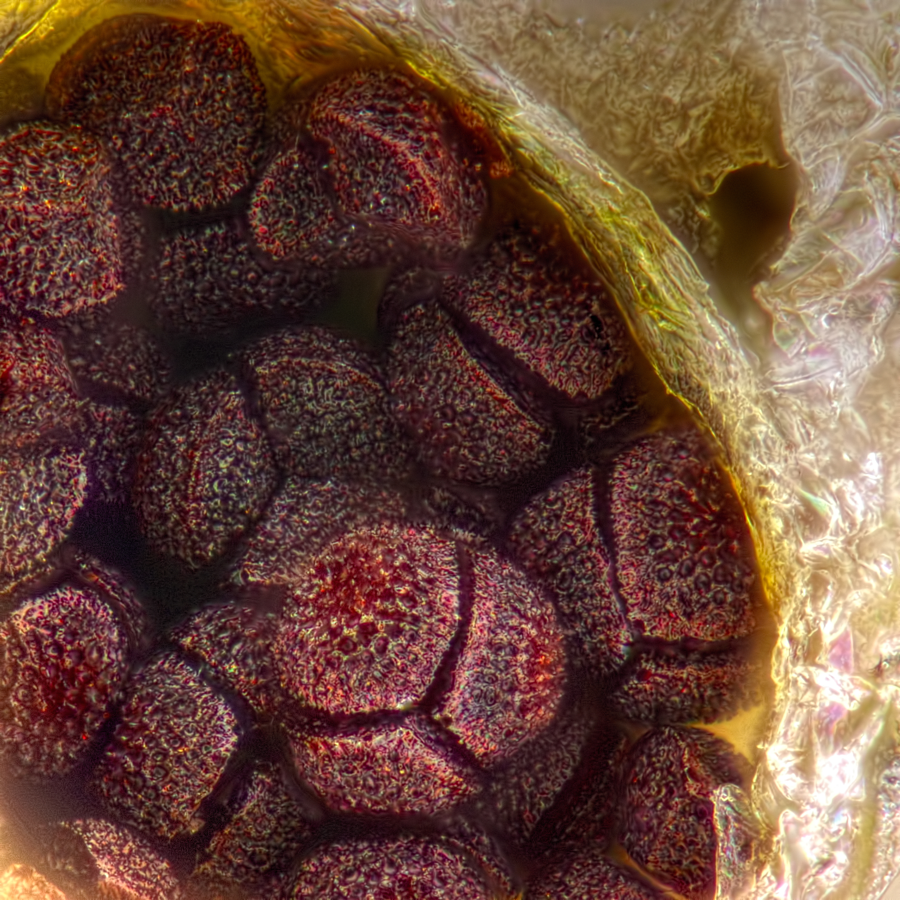 Spore tetrads within a sporangium of Riccia sorocarpa